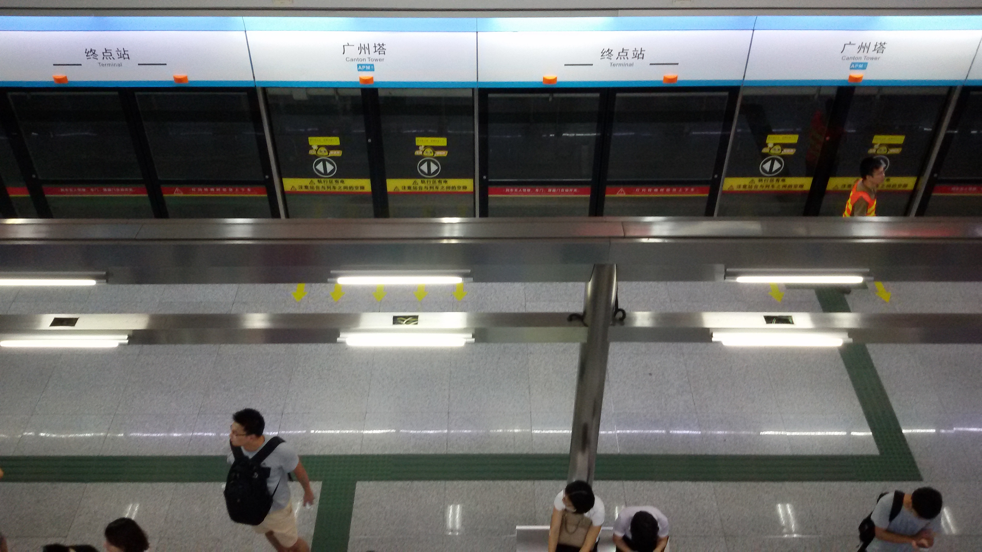 Platform for Canton Tower Station in APM Line, Guangzhou Metro 粵語: 廣州塔站嘅APM綫站台